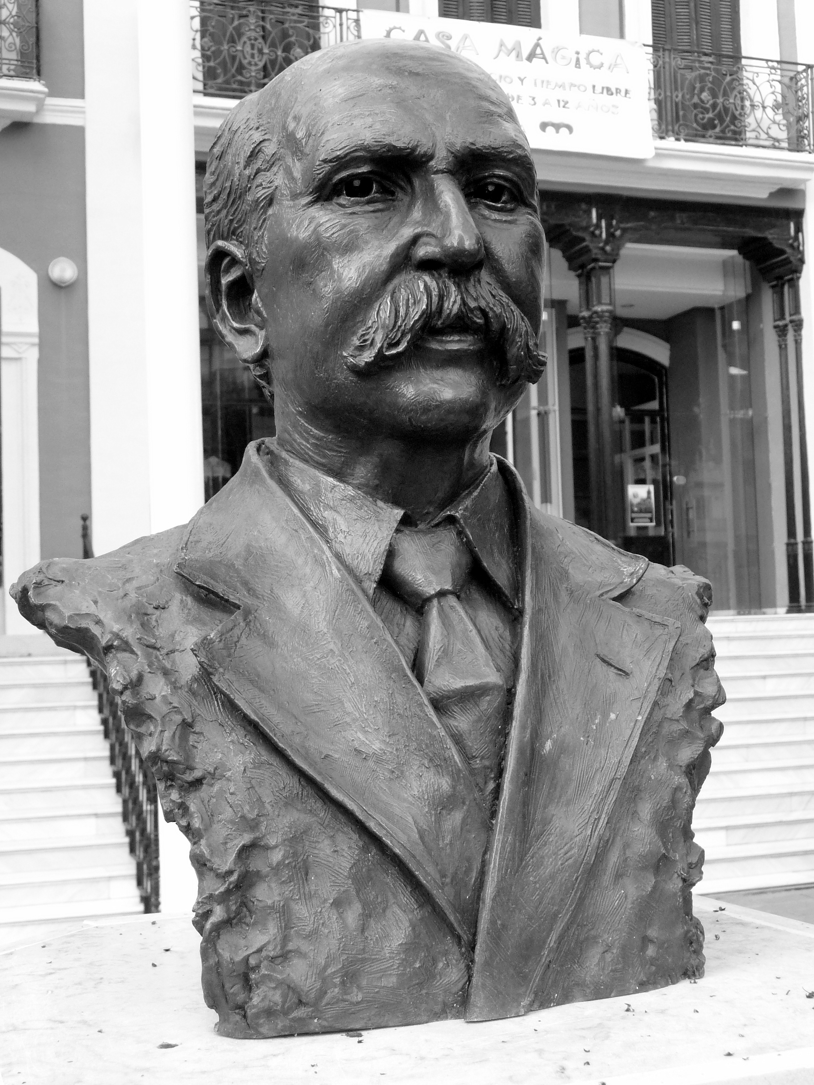 Mr. Charles Adams. President of RC Recreativo de Huelva in 1889.